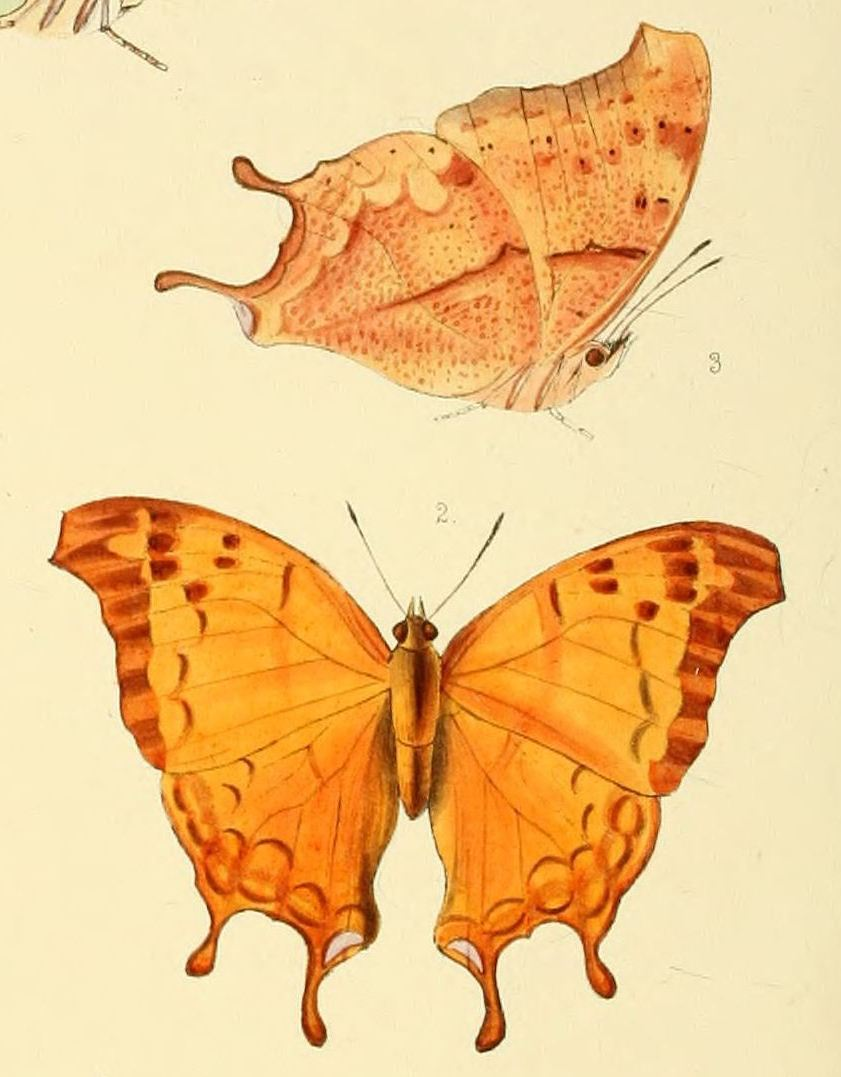 Plate: Nymphalis I Nymphalis neanthes. Figs. 2, 3. Accepted (?) as Charaxes zoolina (Westwood, 1850).